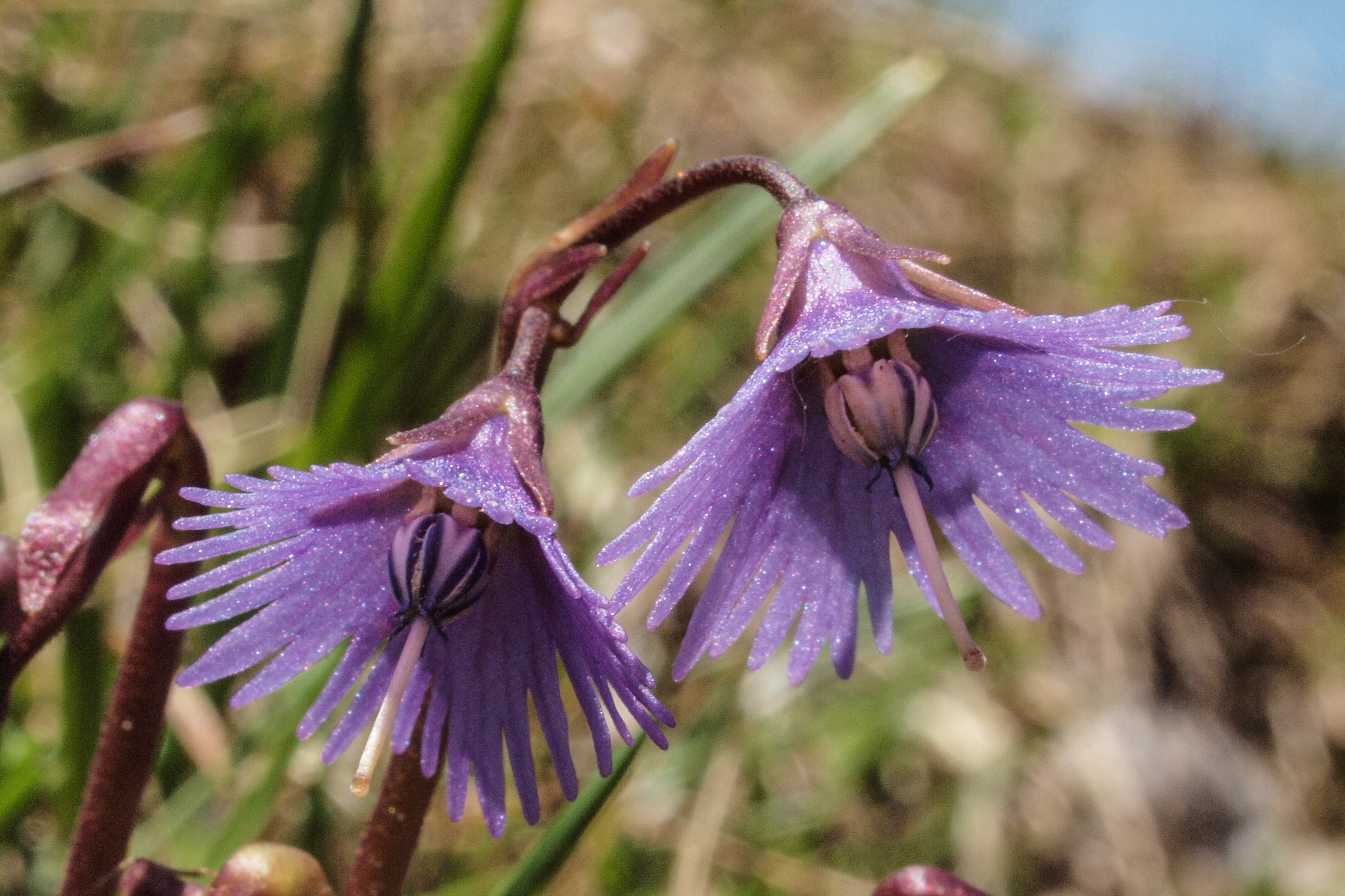 Soldanella alpina, Schöckl near Graz, Austria